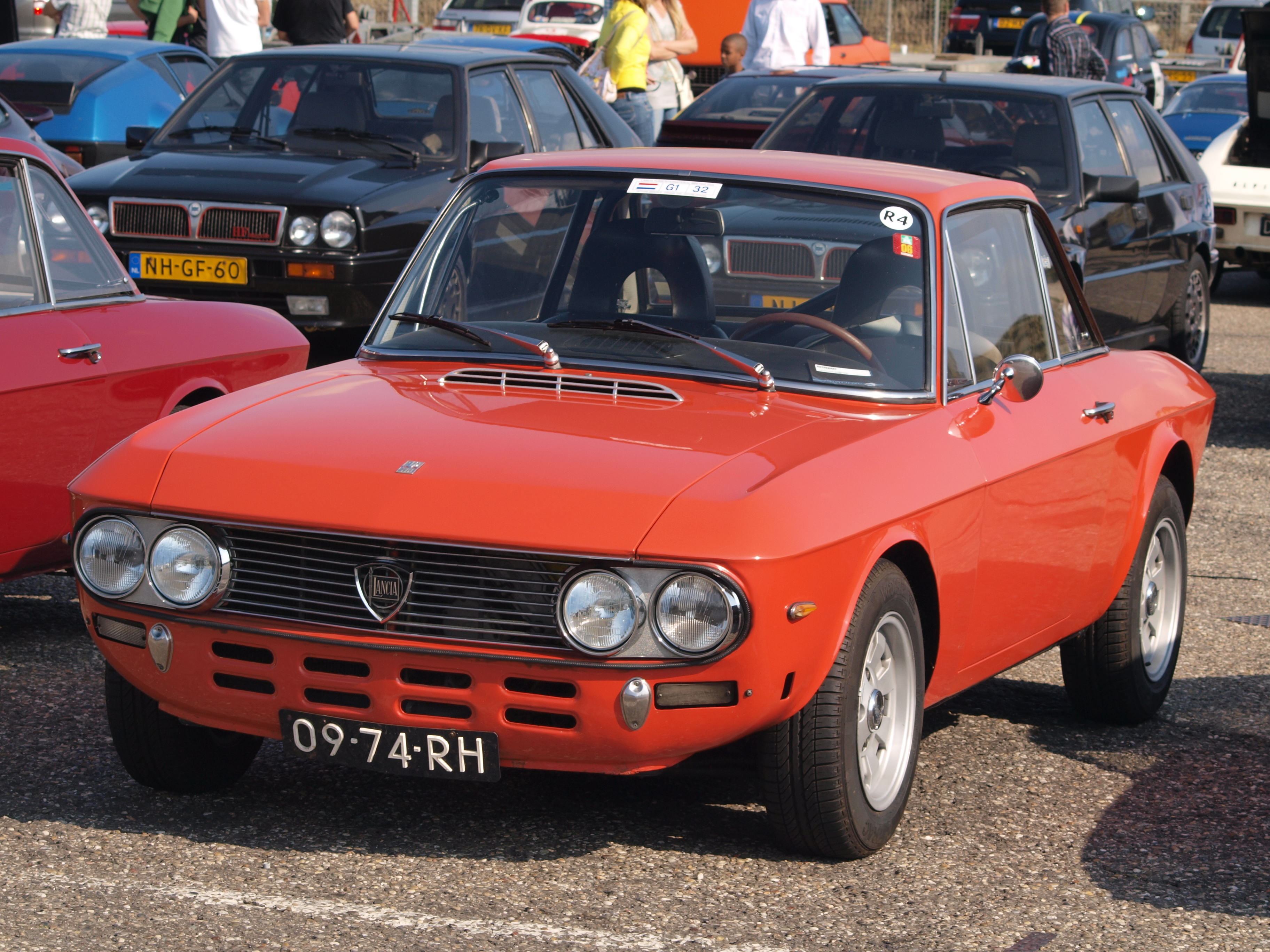 Photographed at the Nationaal Oldtimer Festival Zandvoort 2009, The Netherlands. OLYMPUS DIGITAL CAMERA